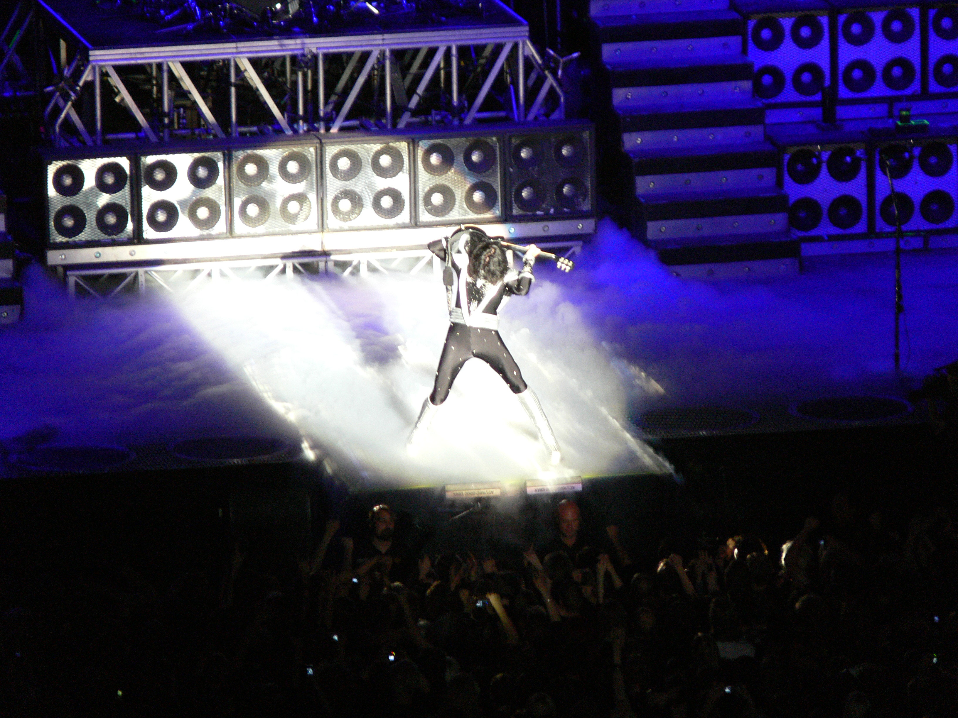 KISS